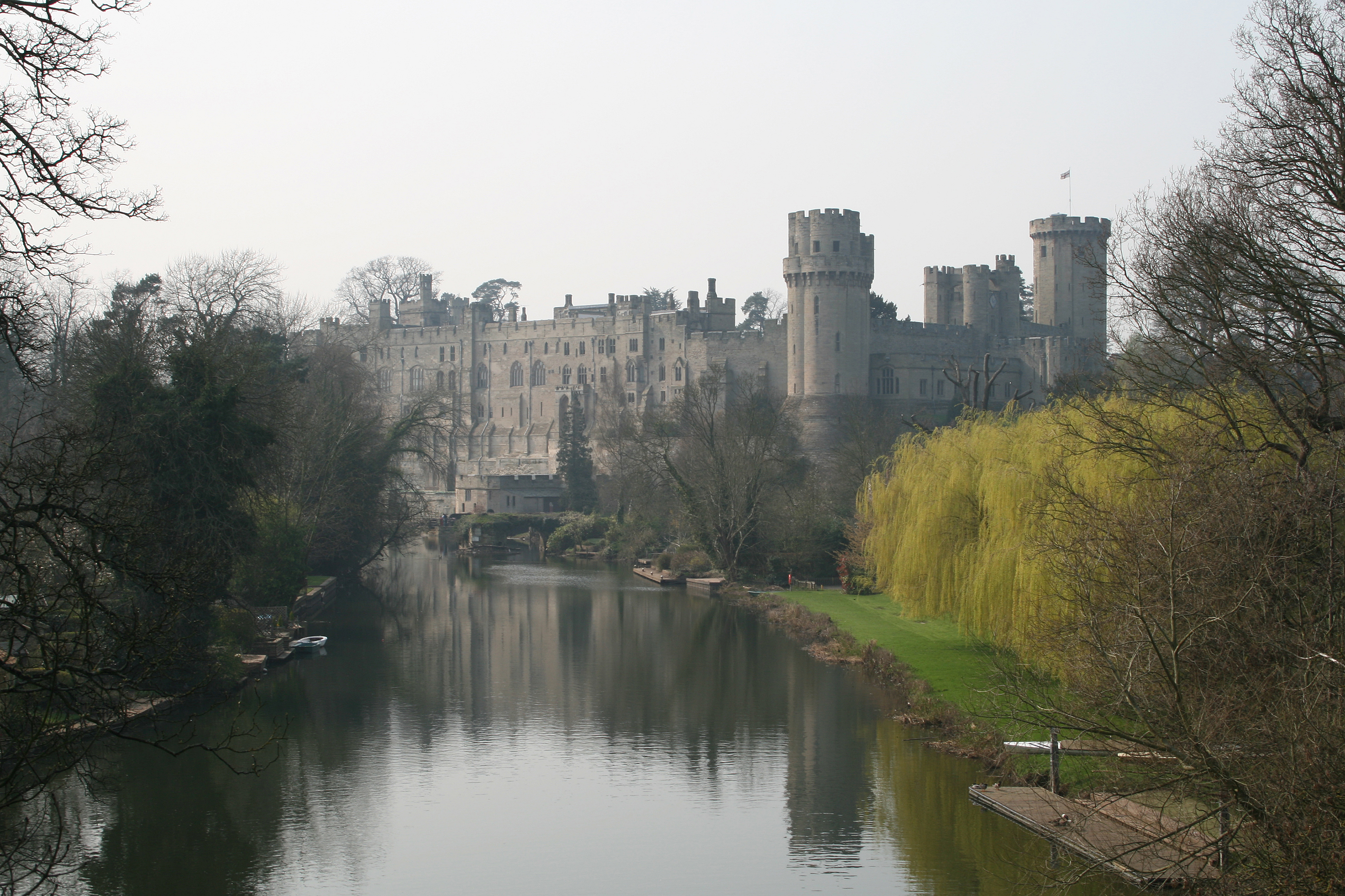 Warwick Castle, Warwick, England. Photo also shows the River Avon. A misty October day in 2007.